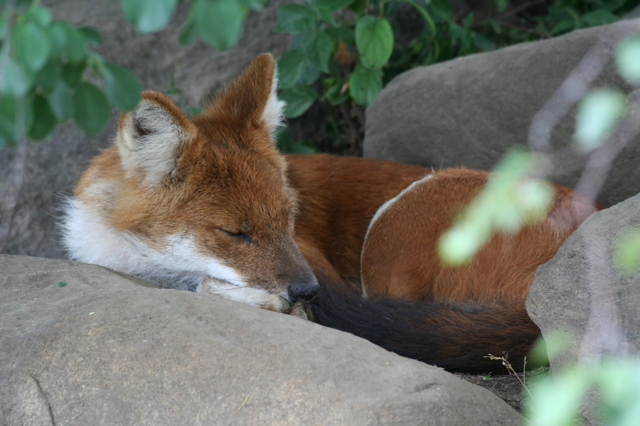 Sleeping Dhole, taken at the Toronto Zoo. Taken with a Canon EOS 350D & 70-300mm f4-5.6 IS USM lens. – Ber'Zophus